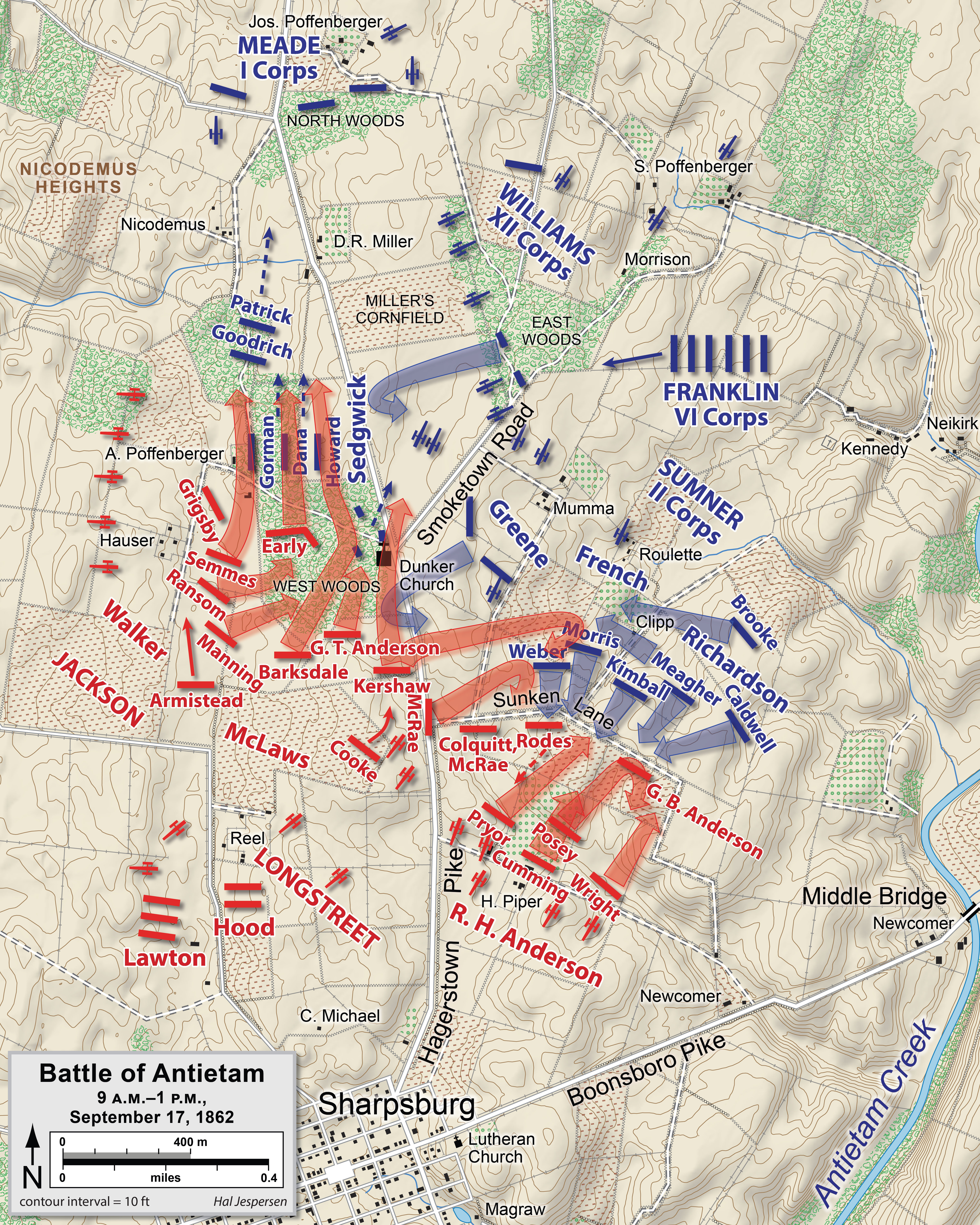 Map of the Battle of Antietam of the American Civil War. Drawn in Adobe Illustrator CS5 by Hal Jespersen. Graphic source file is available at